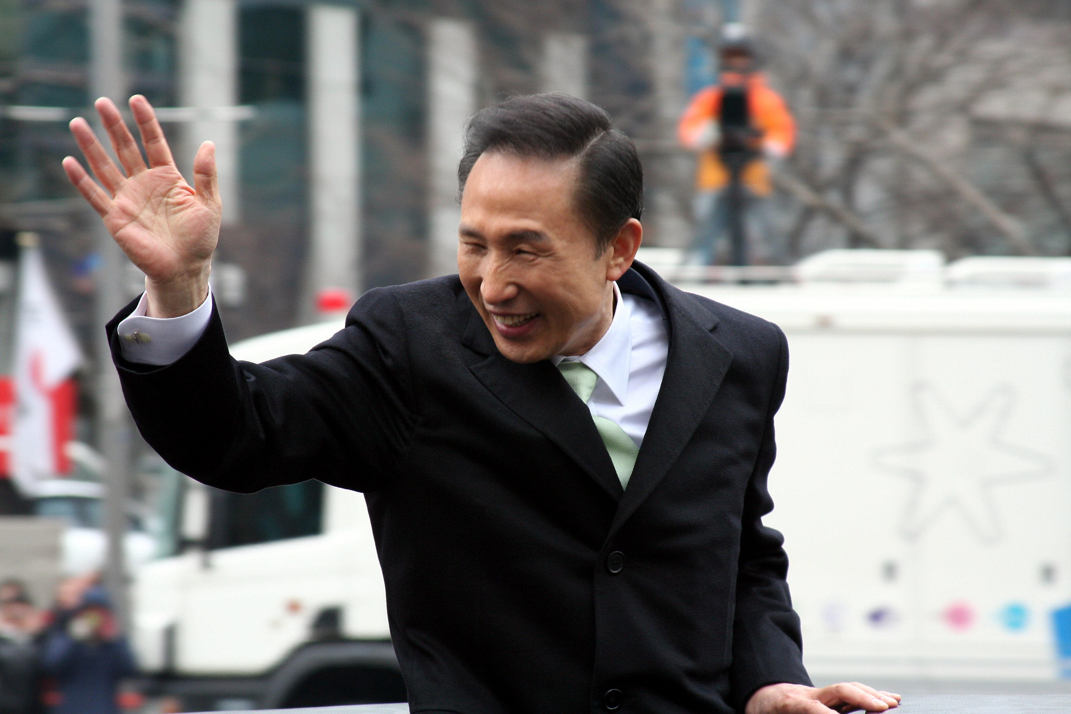 이명박 (Lee Myung-Bak) waves to the crowd from his motorcade after he is inaugurated as Korea's new President.